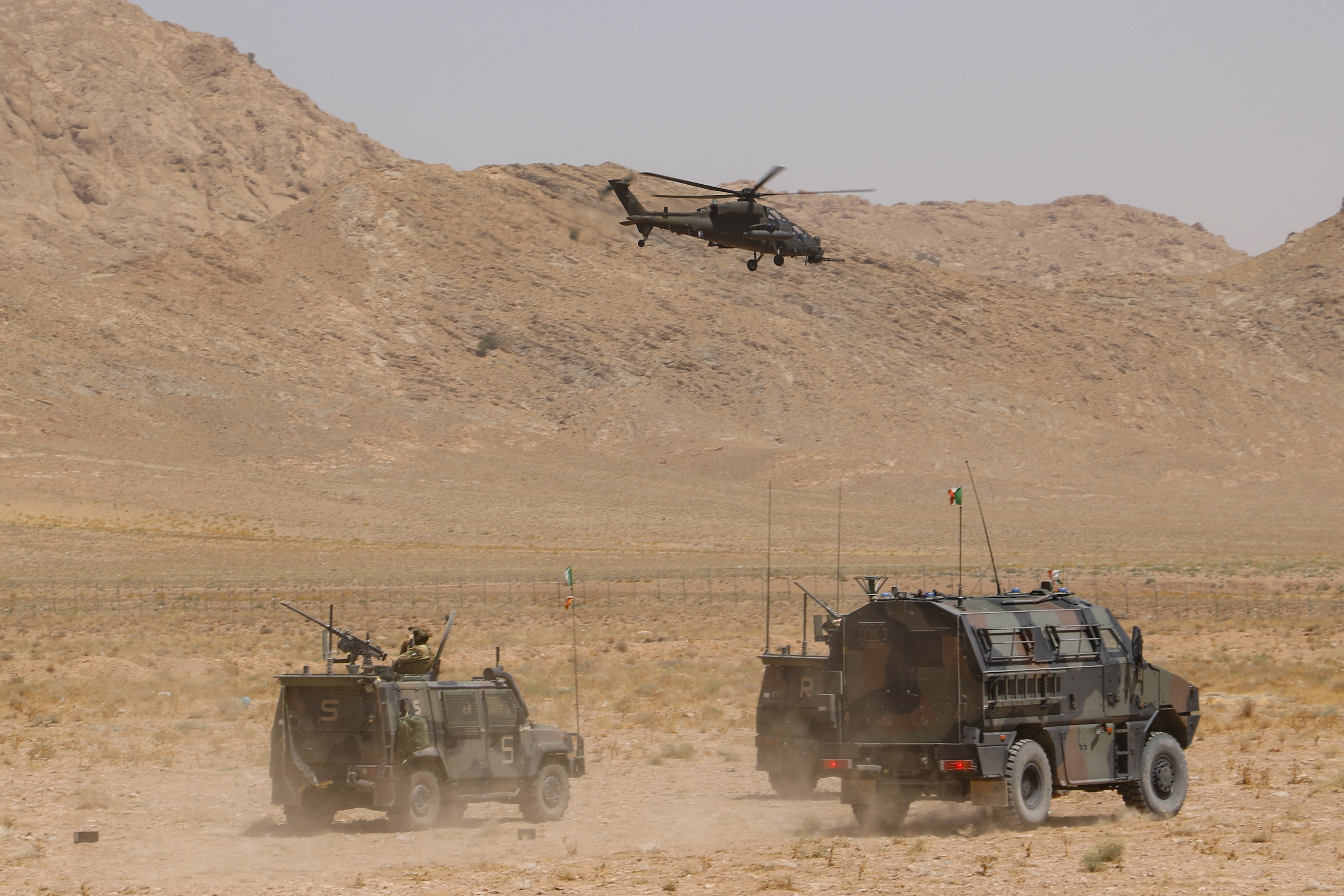 An Italian Army patrol near Herat in Afghanistan 2019 (2 LMV,MPV and AW-129)